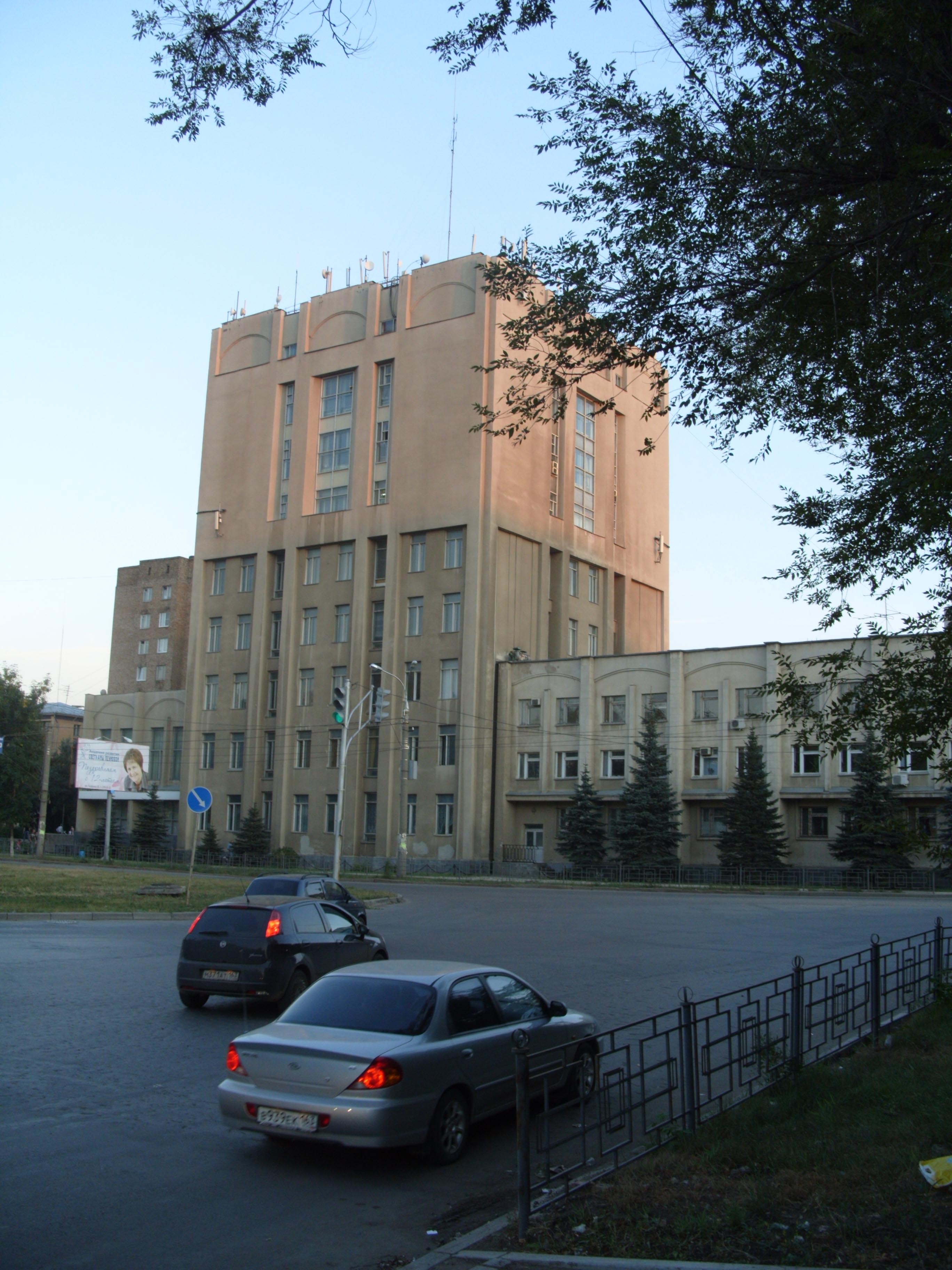 Samara metro main building